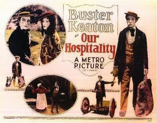 Promotional poster for the 1923 film, Our Hospitality